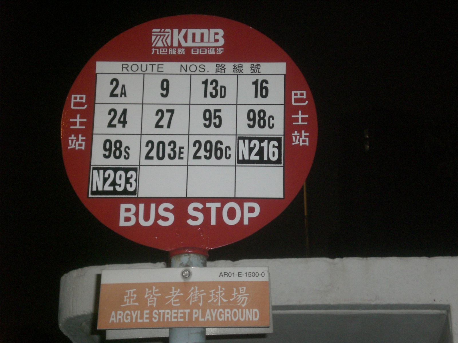 九龍城九龍巴士車站 亞皆老街